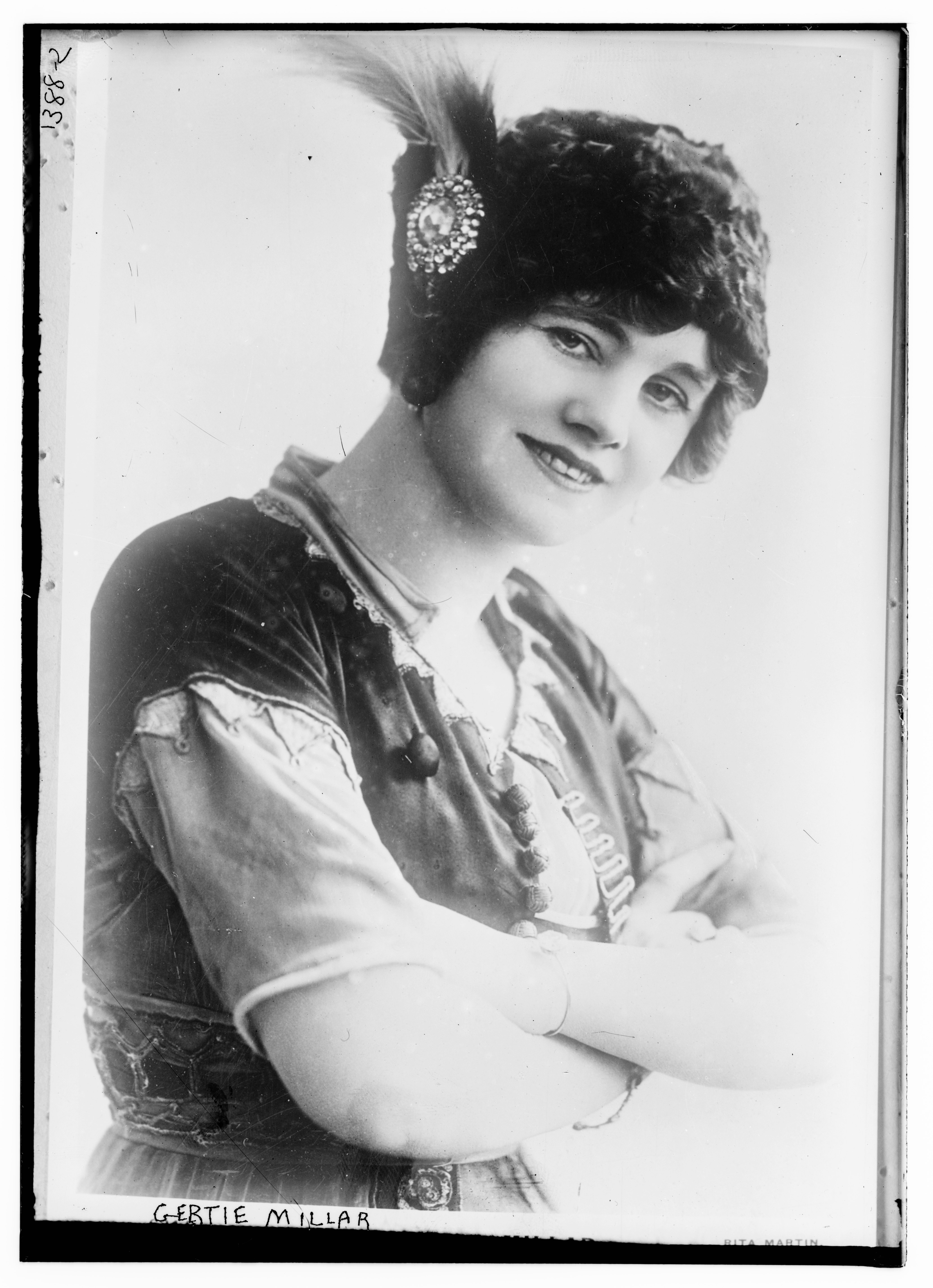 Title: Gertie Millar Abstract/medium: 1 negative : glass ; 5 x 7 in. or smaller.